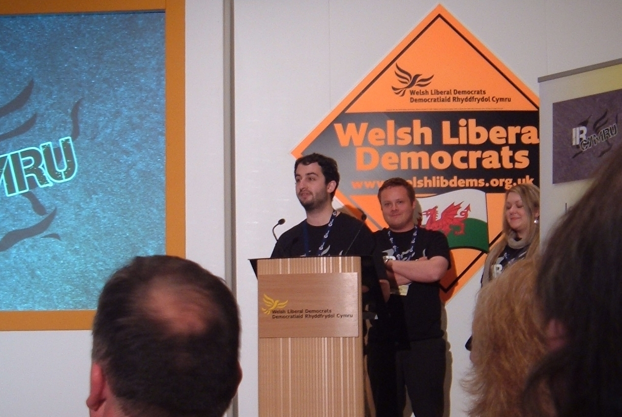 Welsh Liberal Democrat Conference (Barceló Angel Hotel, Cardiff) on 18th April 2009. Depicts three members of the IR Cymru executive; Corey Shefman (Chair), Ed Wilson (Treasurer) and Leanne-Marie Cotter (Campaigns Officer).